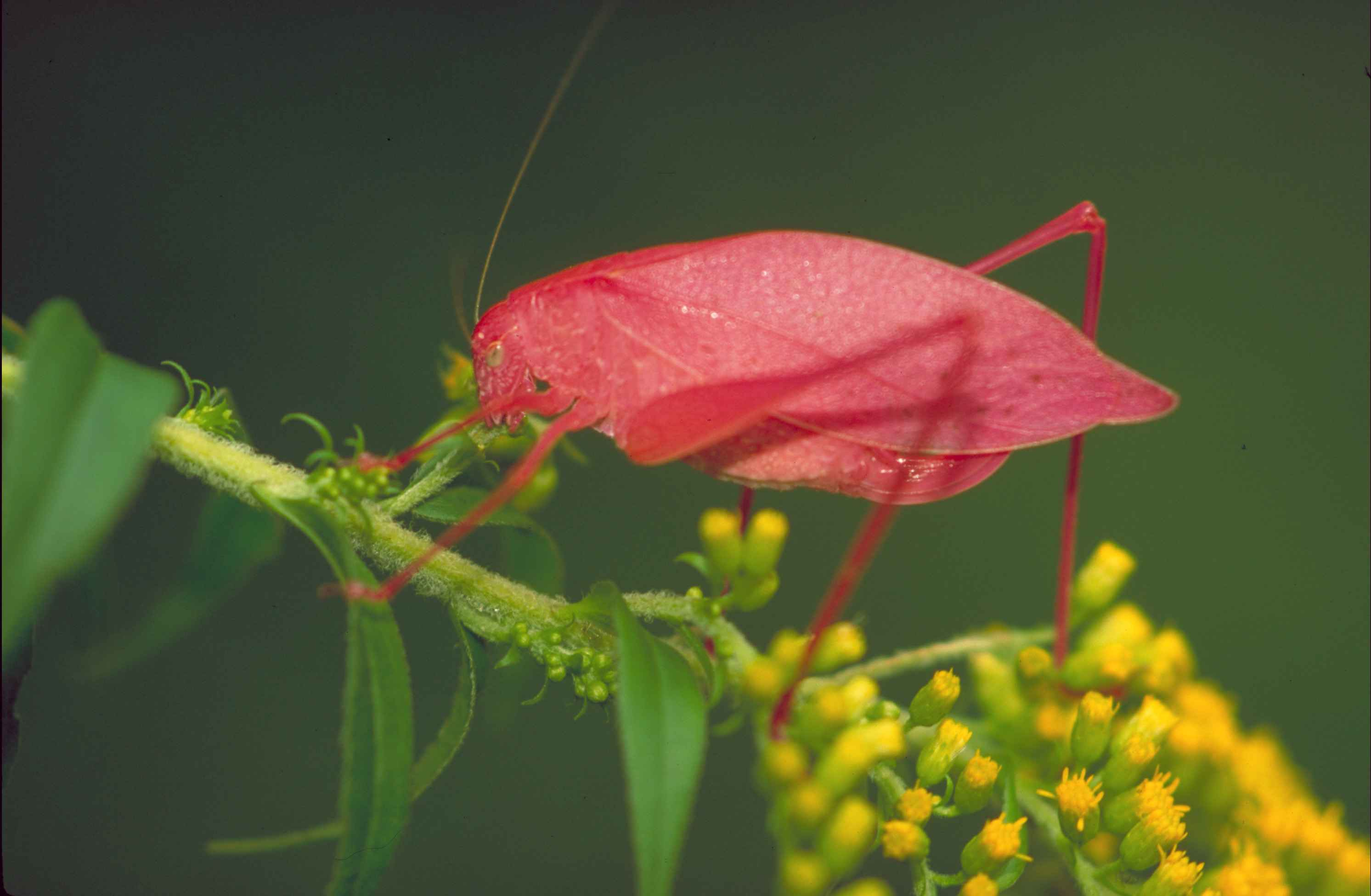 Image title: Katydid on early goldenrod microcentrum retinerve Image from Public domain images website